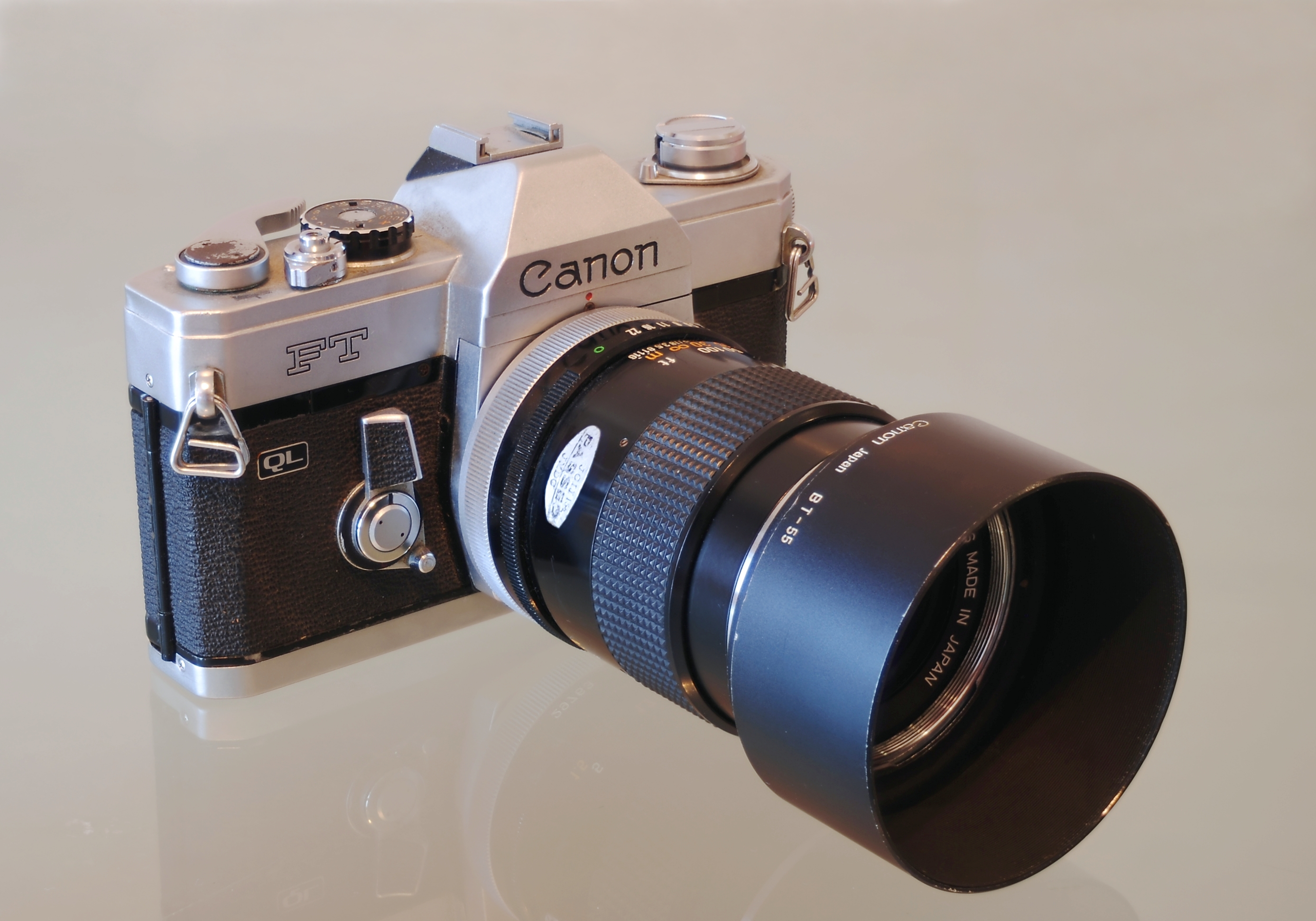 A Canon FT QL camera (1966) with a 135mm 1:3.5 lens. Composite image of eight photos using focus bracketing